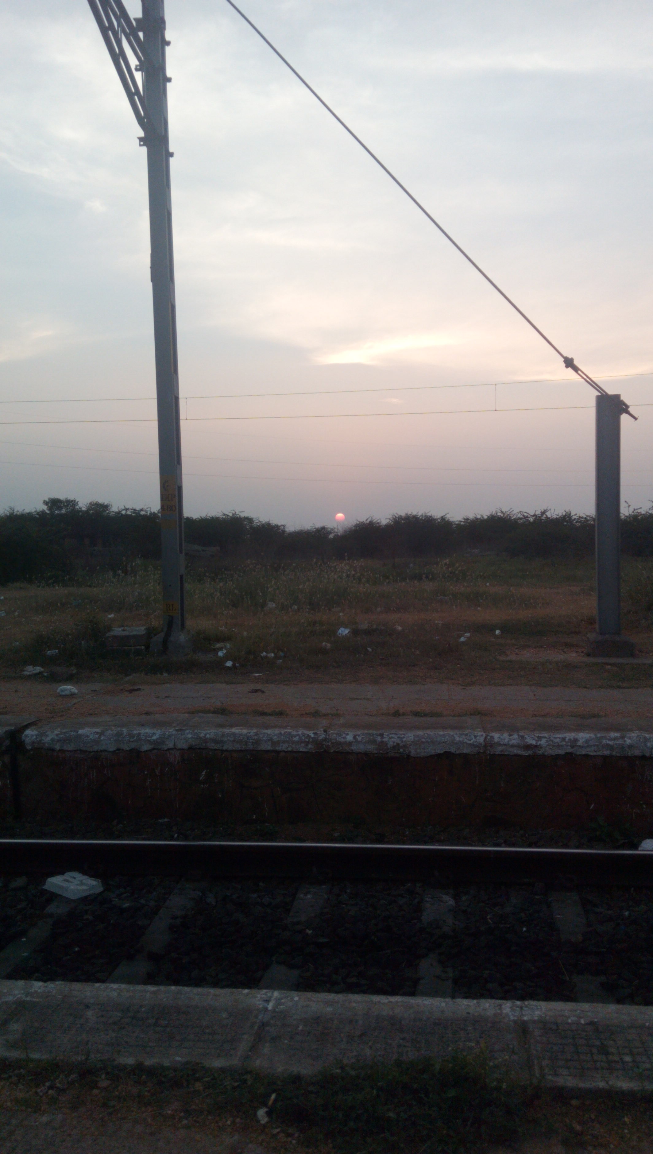 Sunset from the third platform of Vanchi Maniyachi Junction